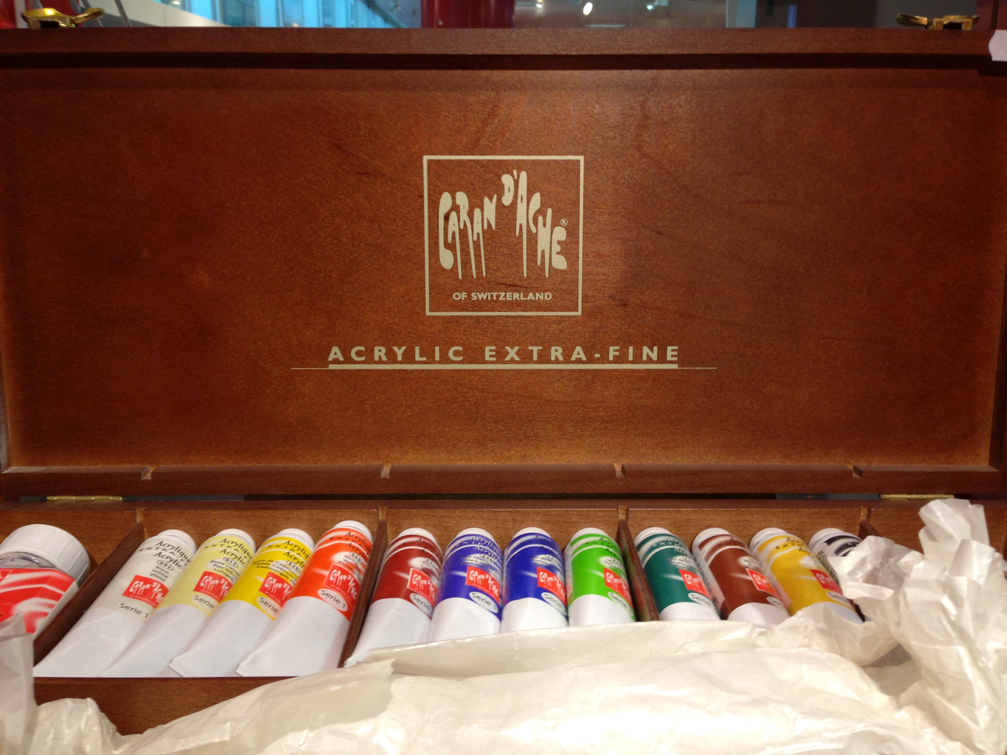 Caran_d'Ache_(company) Pablo Paints - Feb 2013